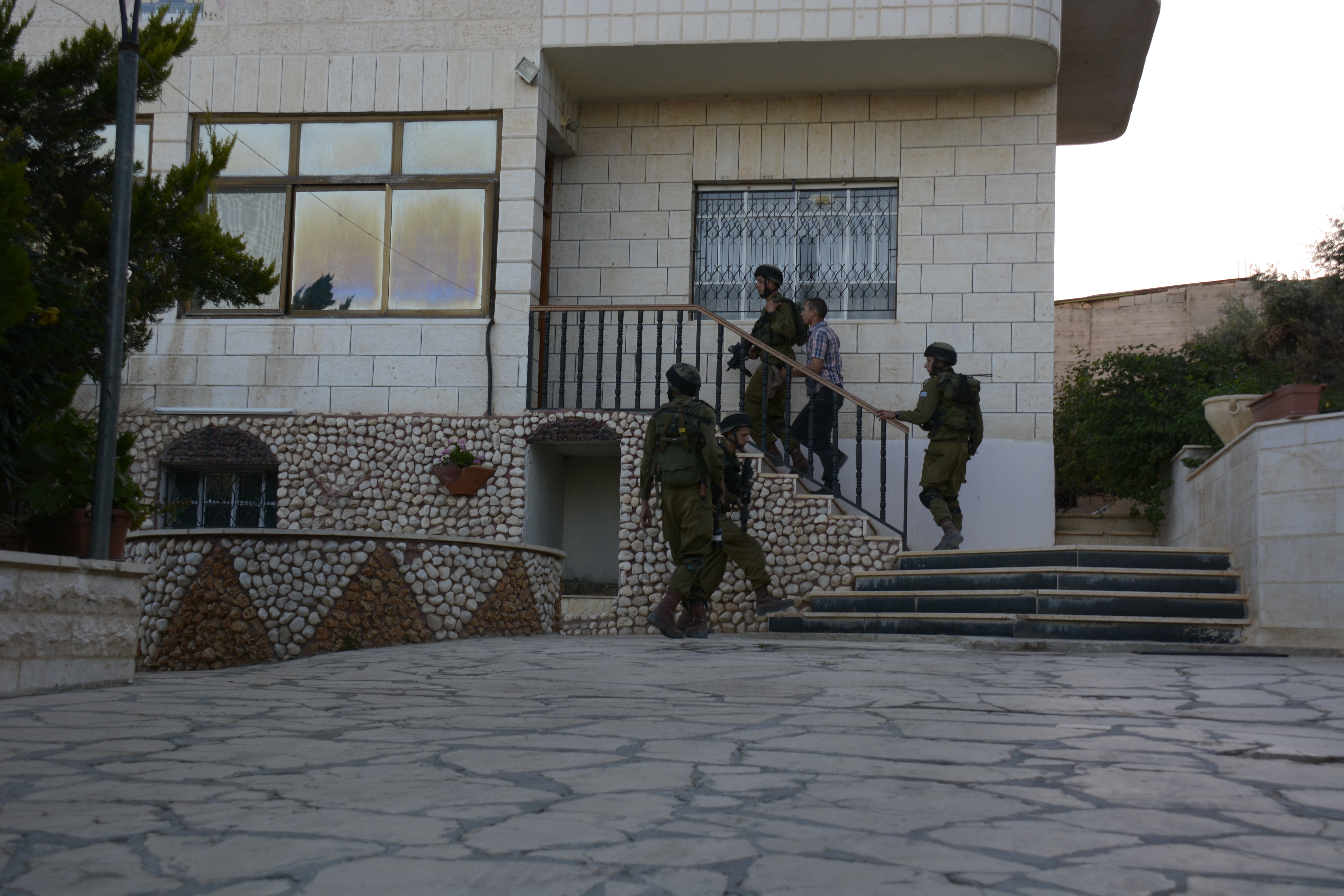 On the night of June 12, three Israeli teenagers suddenly went missing in Judea and Samaria. Our forces are relentlessly searching for them, operating under the presumption that they were kidnapped by Palestinian terrorists. These exclusive photos show the efforts of the IDF soldiers in the Hebron area. The names of the abducted Israelis are Eyal Yifrach (age 19), Gilad Shaar (age 16), and Naftali Frenkel (age 16). Our mission is to bring them home as quickly as possible. We will do everything to #BringBackOurBoys For more updates: The Israel Defense Forces Facebook The Israel Defense Forces blog Follow us on Twitter